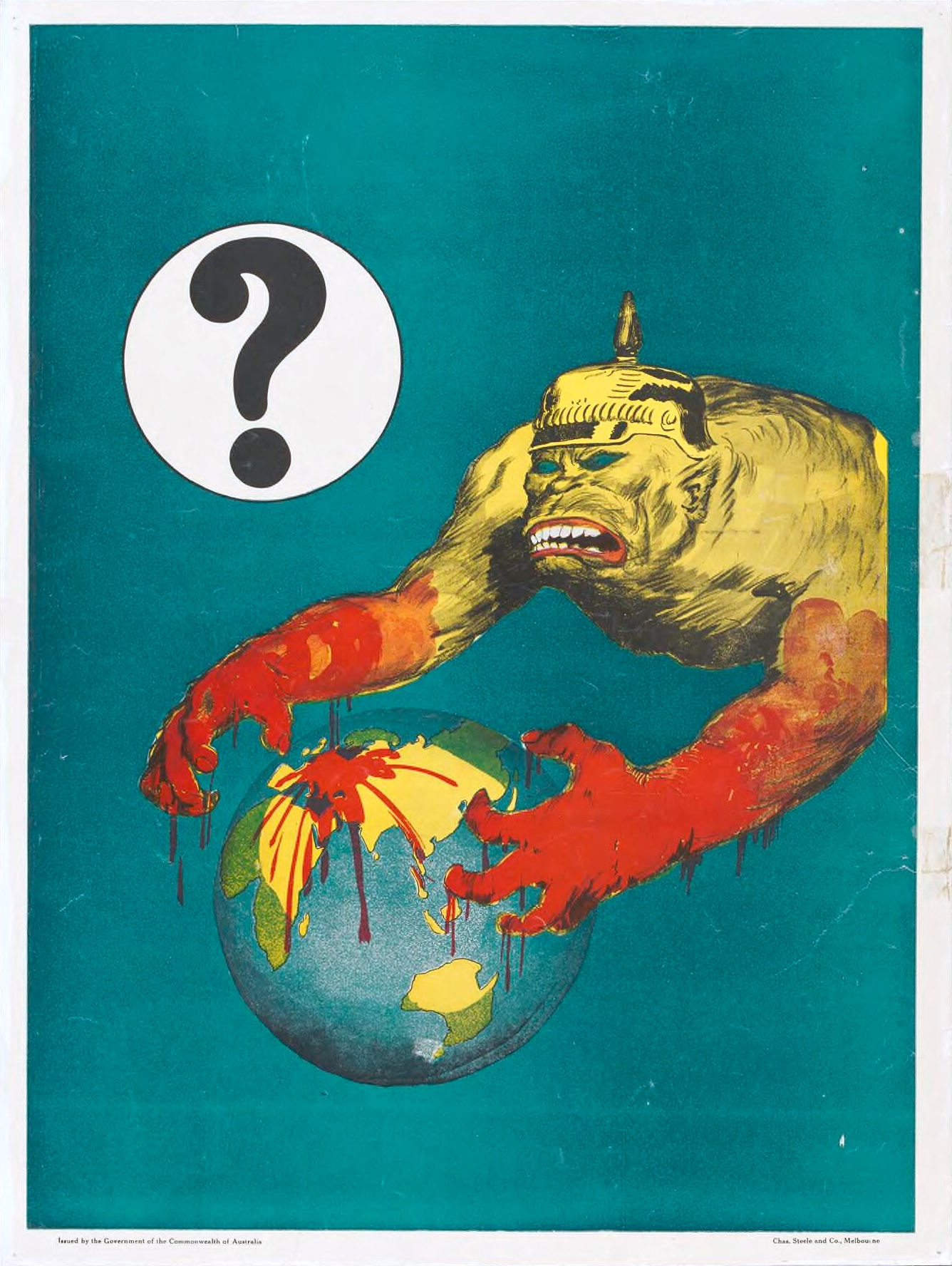 Australian World War I era propaganda cartoon by Norman Lindsay, circa 1918 (certainly between 1914 and 1918). Commissioned for and first published by the Commonwealth of Australia, as such ownership was in the Crown, copyright expiring 50 years after first publication (thus public domain since, at the latest, 1968).